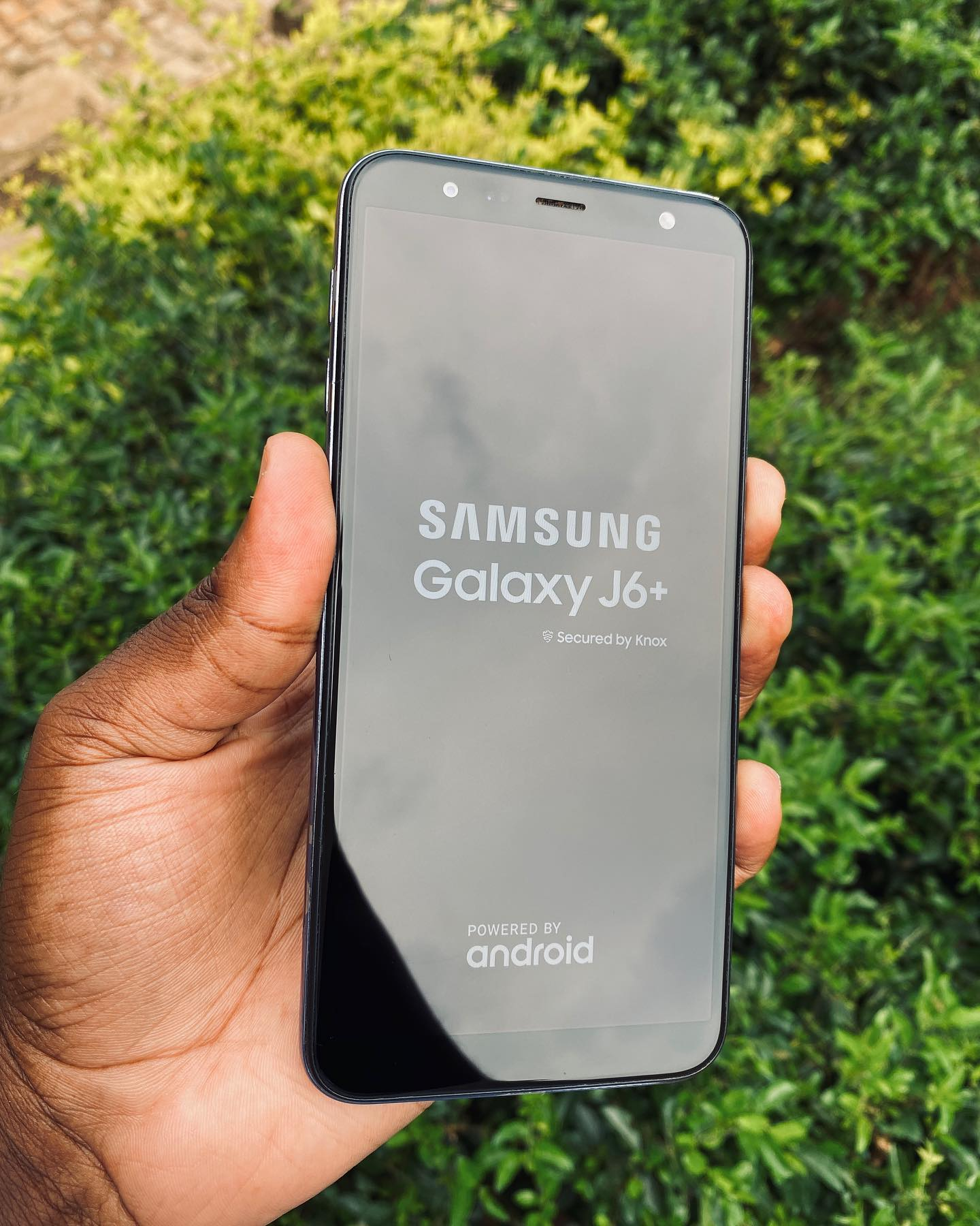 Samsung Galaxy J6+ is a mid range Android smartphone produced by Samsung Electronics in 2018.